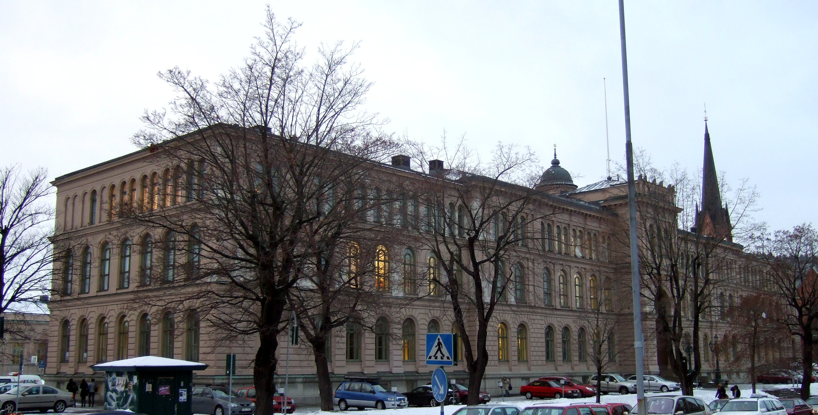 The main building of Hedbergska Skolan in Sundsvall, Sweden, viewed from south